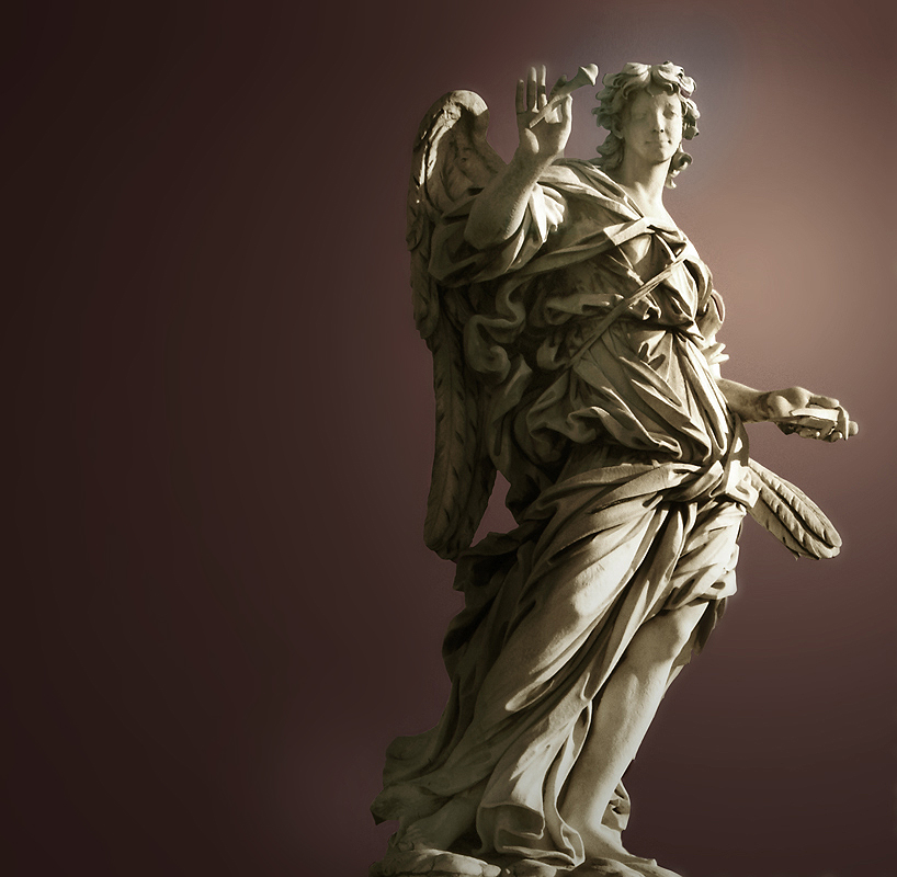 Angel with the Nails, by Girolamo Lucenti, Ponte Sant'Angelo, Rome. light sepia, background edited